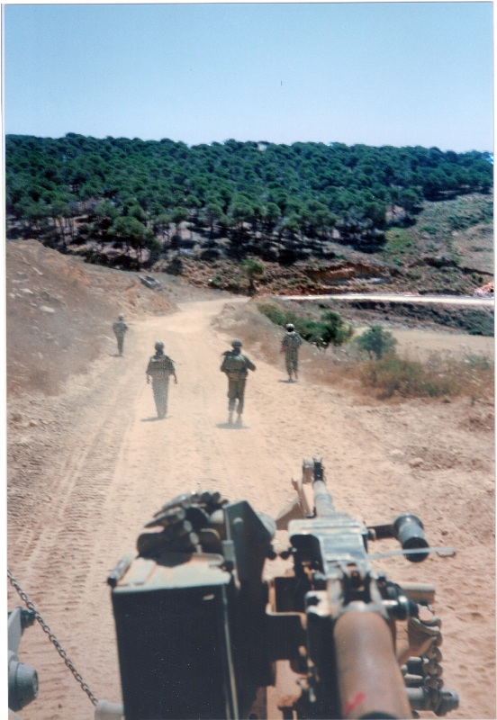 תמונה של פתיחת ציר לייד עיישיה לבנון. התמונה צולמה על ידי ליאור